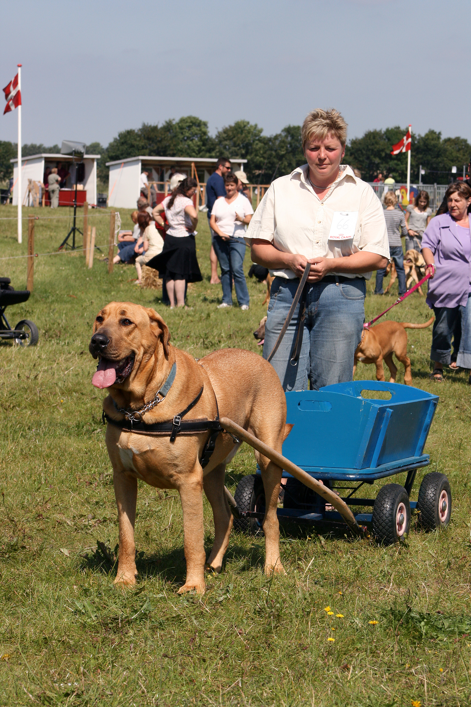 The broholmer "Frøy" with his owner Bente Petersen at the historical agricultural show at Gl. Estrup, Djursland, Denmark